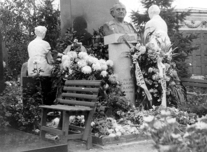 The grave of Shmuel Halkin at Novodevichy Cemetery in Moscow, with sculptural portrait (bust) of the poet.